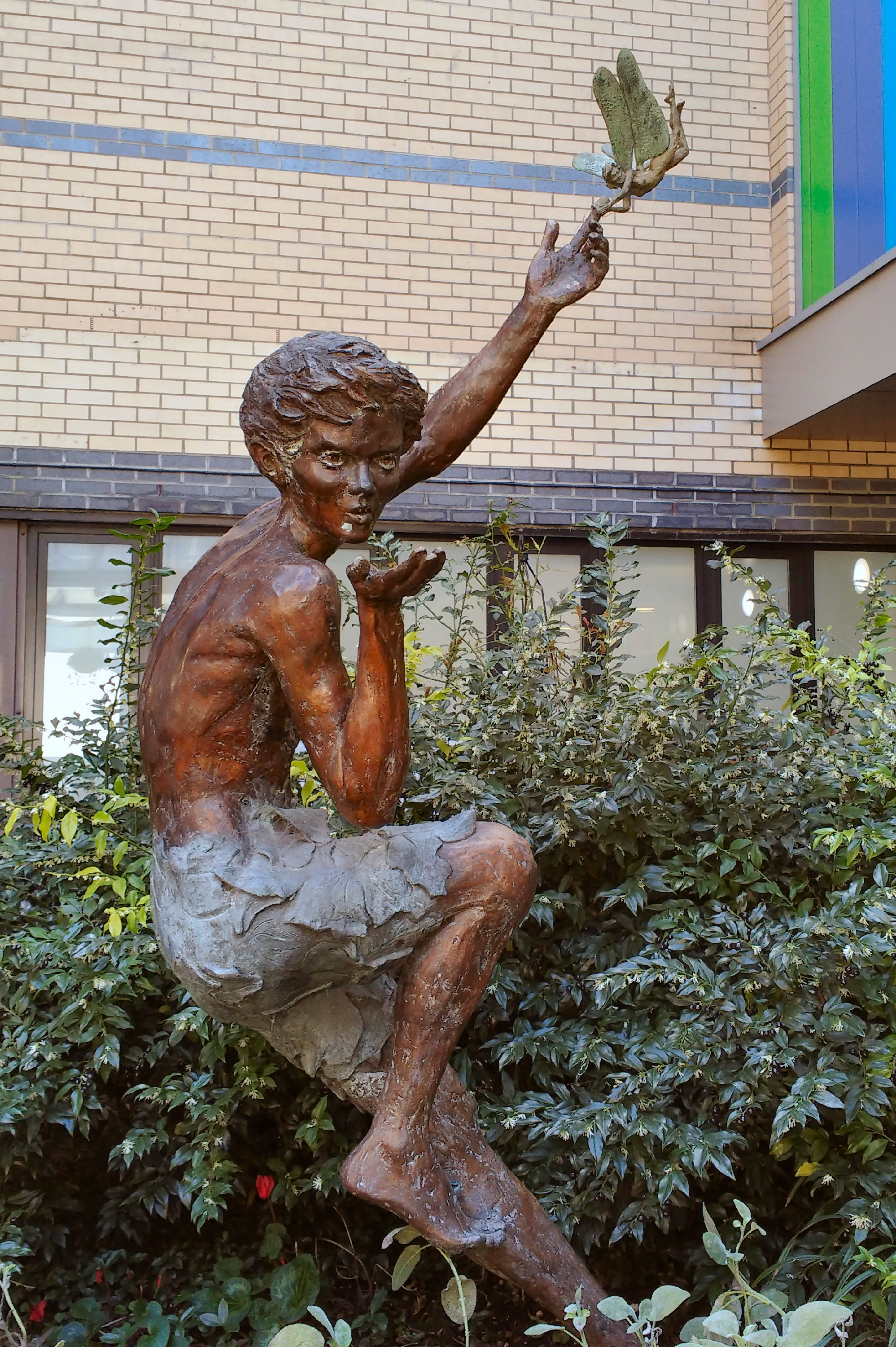 Great Ormond Street Hospital, Peter Pan statue by the entrance. Sculptor:Diarmuid Byron O'Connor. Unveiled 14 July 2000 by Lord and Lady Callaghan. Tinker Bell unveiled 29 September 2005 by the Countess of Wessex.